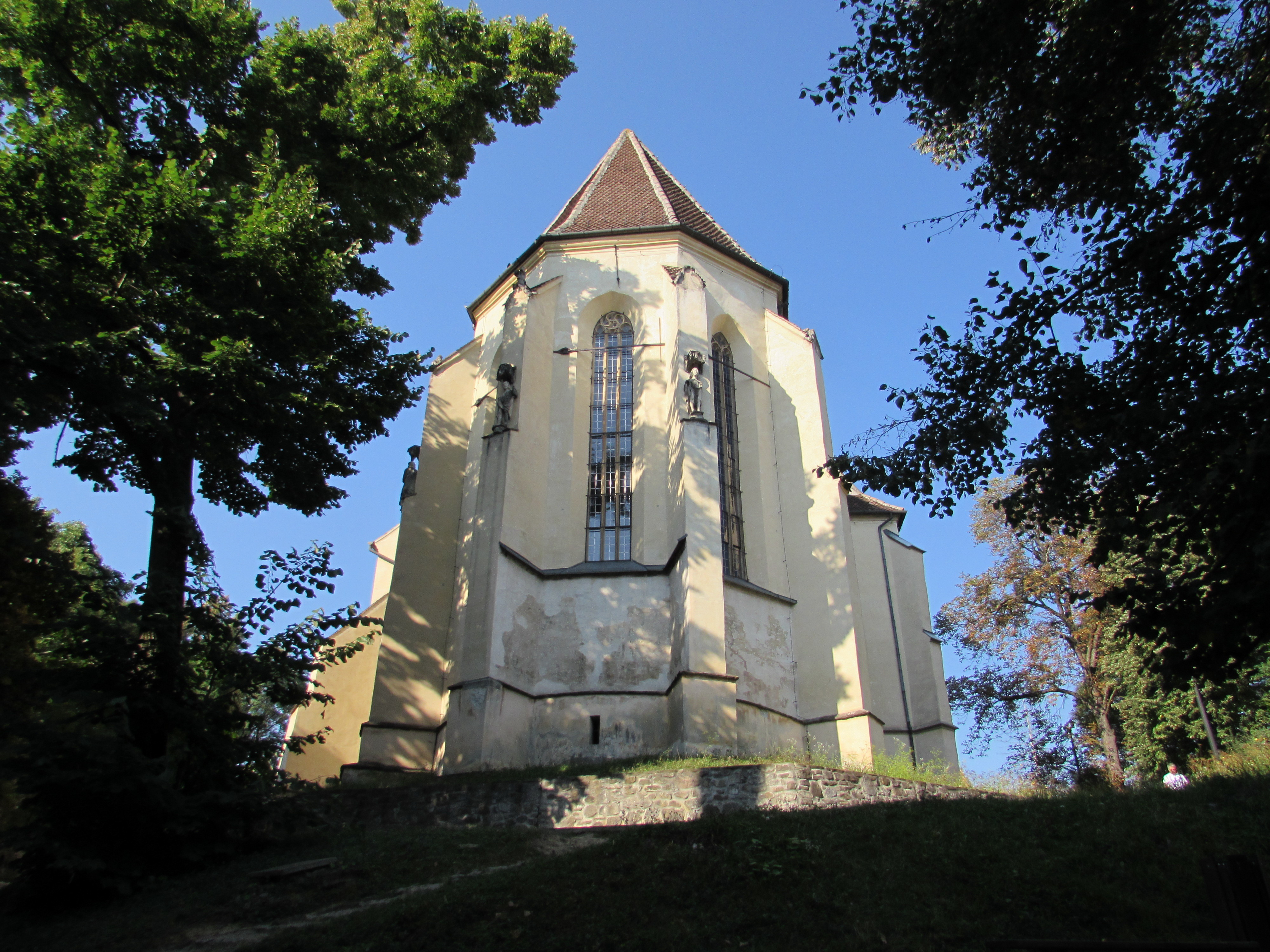 Uphill Lutheran church in Sighișoara